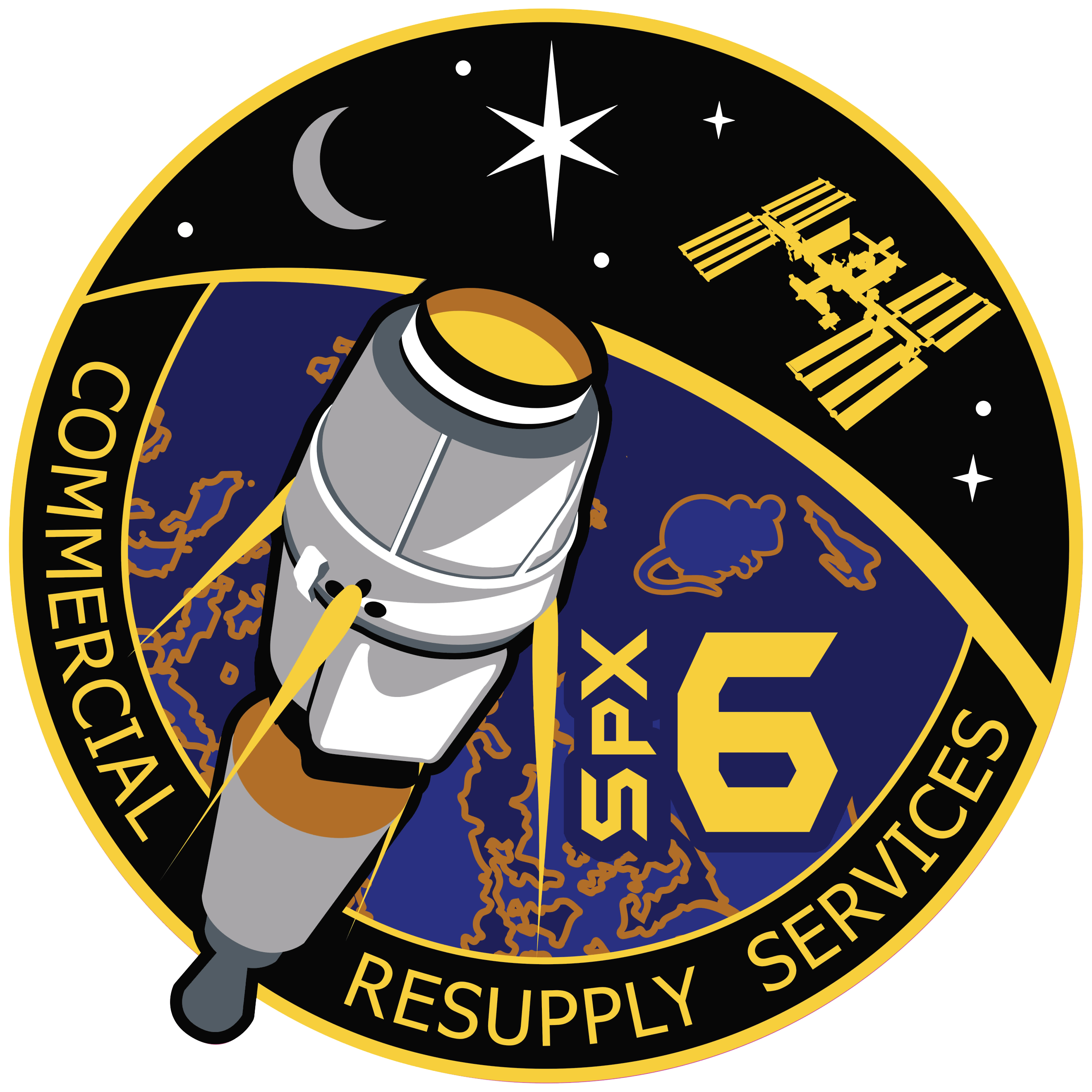 NASA's insignia for SpaceX's Commercial Resupply Services-6 (CRS-6) mission to the International Space Station (SpX-6)